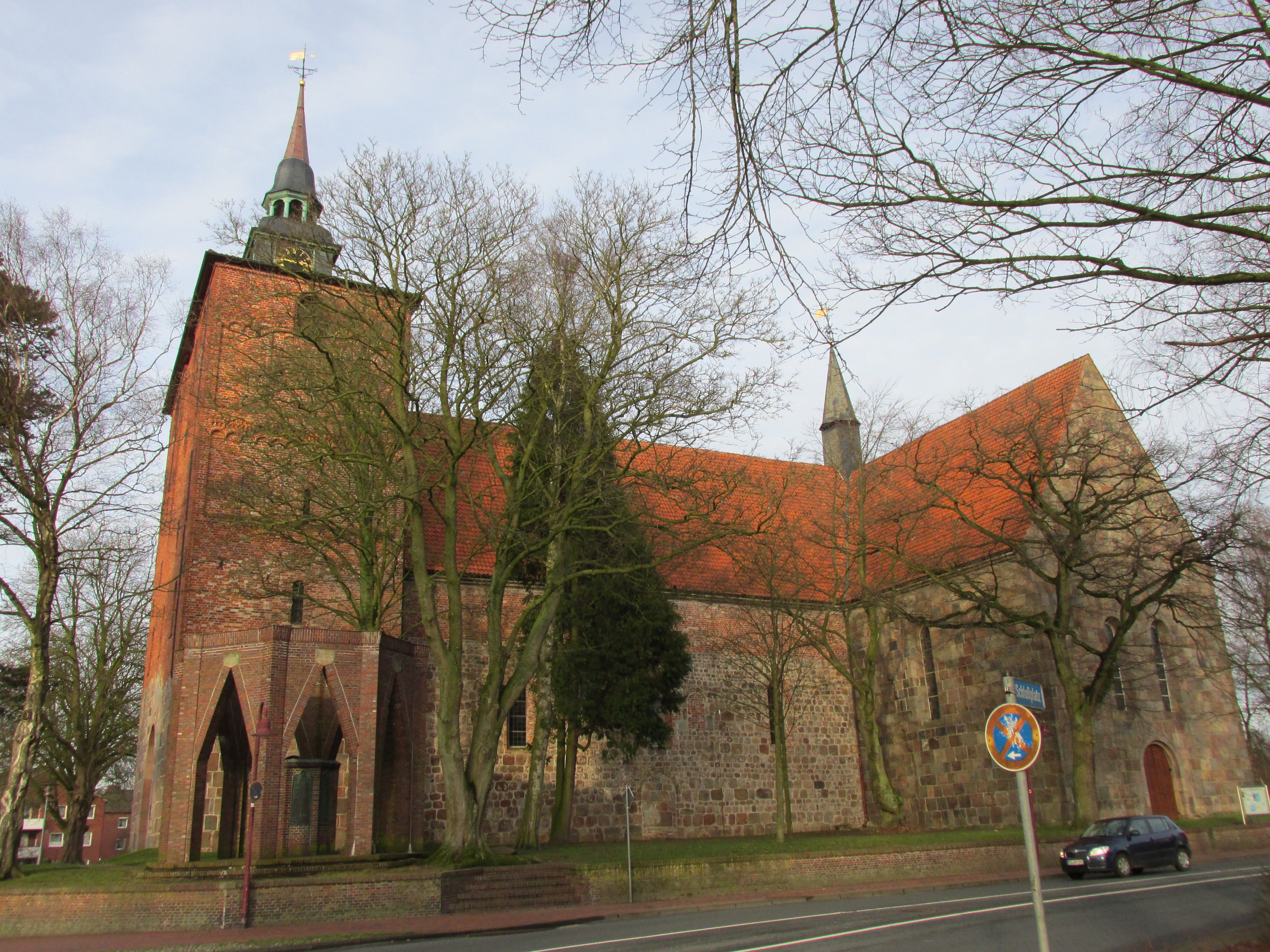 St. Peter church, Varel, Germany check usage Address Schlosskirche St. Petri Schloßplatz 26316 Varel Germany Date18 January 2014SourceOwn work. (→ weitere 1,829 Bilder von mir in der Galerie)AuthorStefan FlöperPermission (Reusing this file) cc-by-sa-3.0, gfdl 1.2+